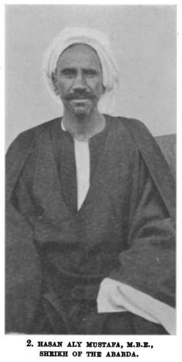 Sheikh Hasan Aly Mustafa of the Ababda Beja.